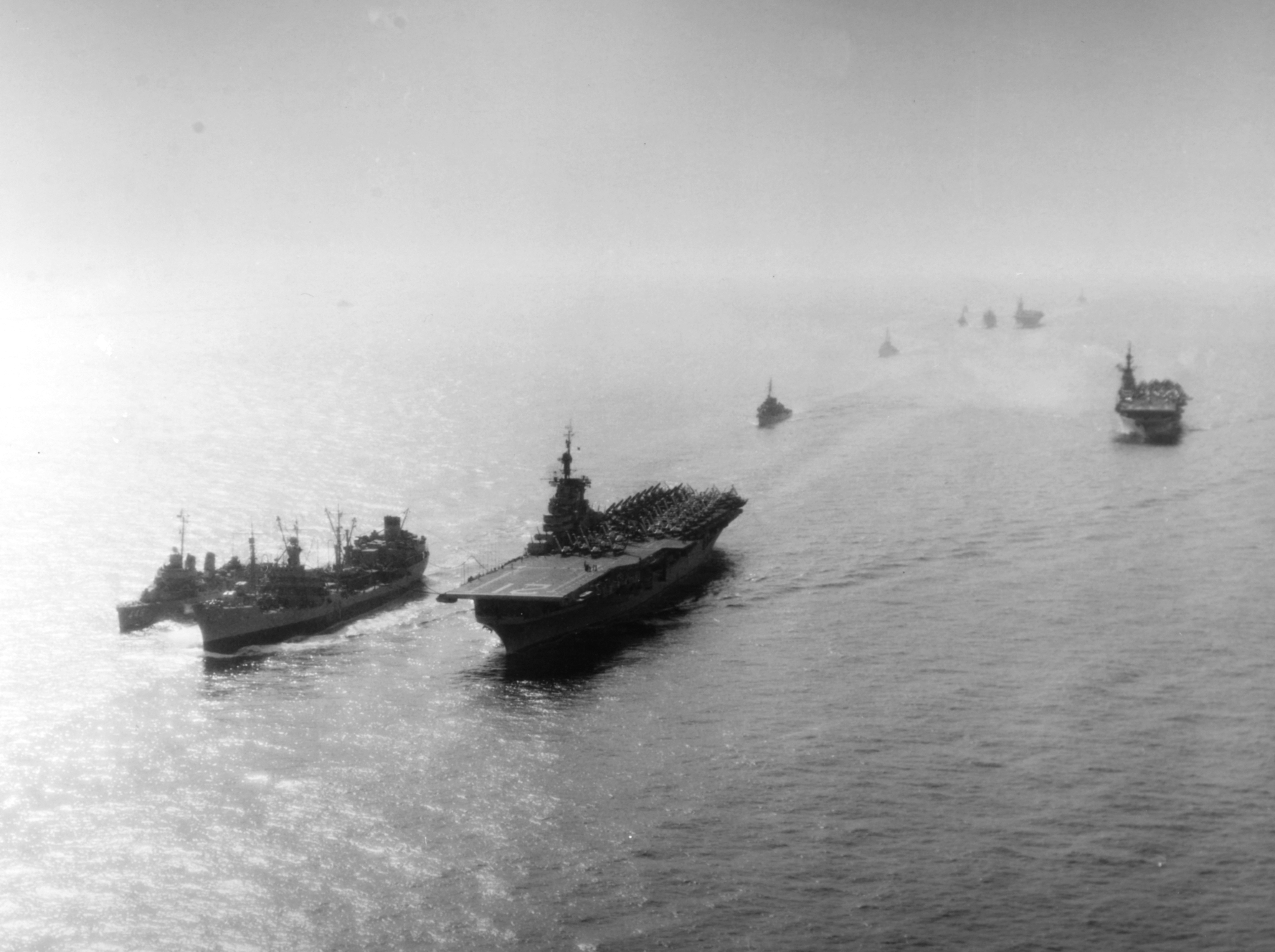 The U.S. Navy Task Force 77 replenishing during operations off Korea om 2 June 1953. The aircraft carrier in the foreground is USS Boxer (CVA-21), taking on fuel from an oiler, which is also fueling a destroyer. Two other carriers, several destroyers and another replenishment ship are following.